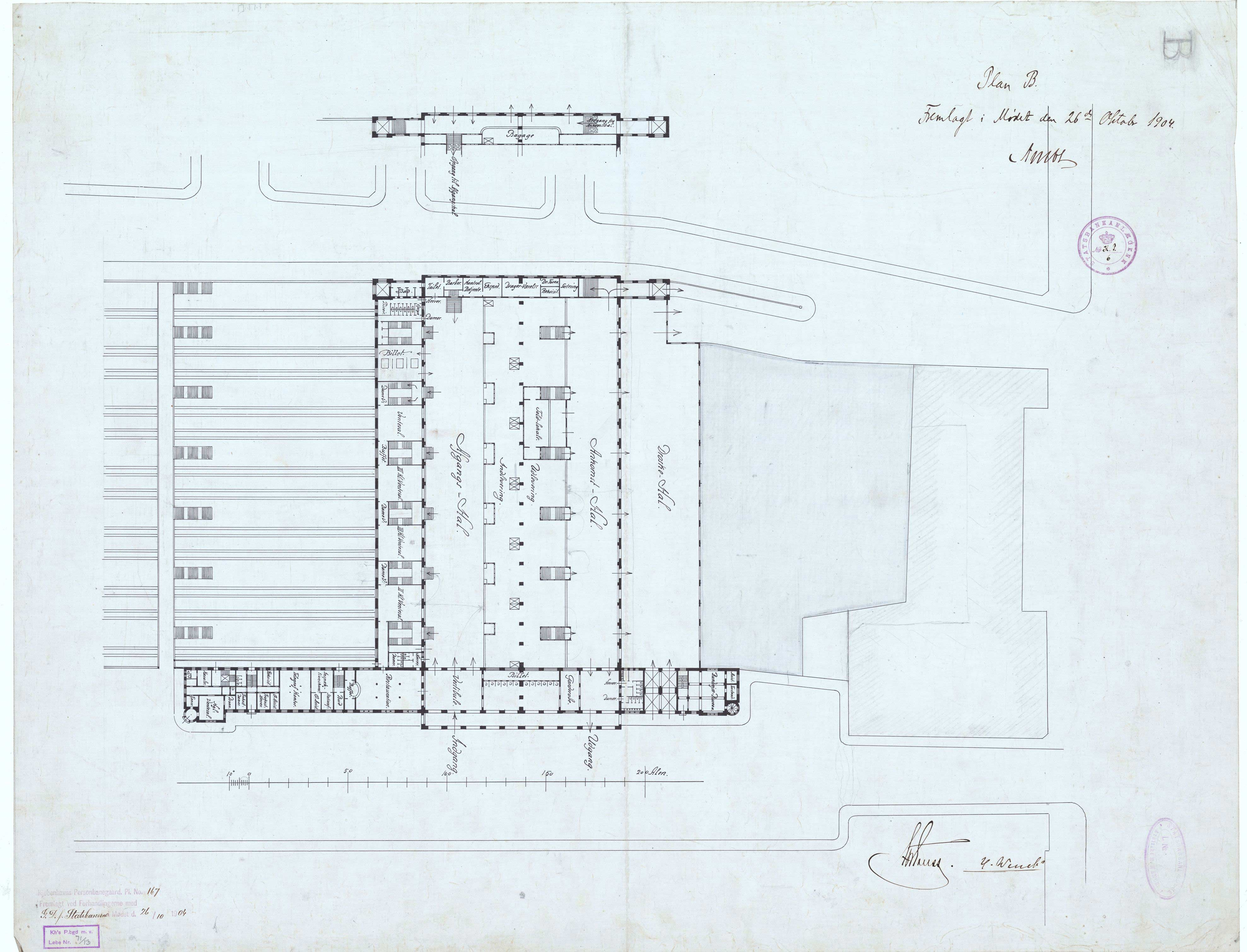 Plan of Copenhagen Central Station.